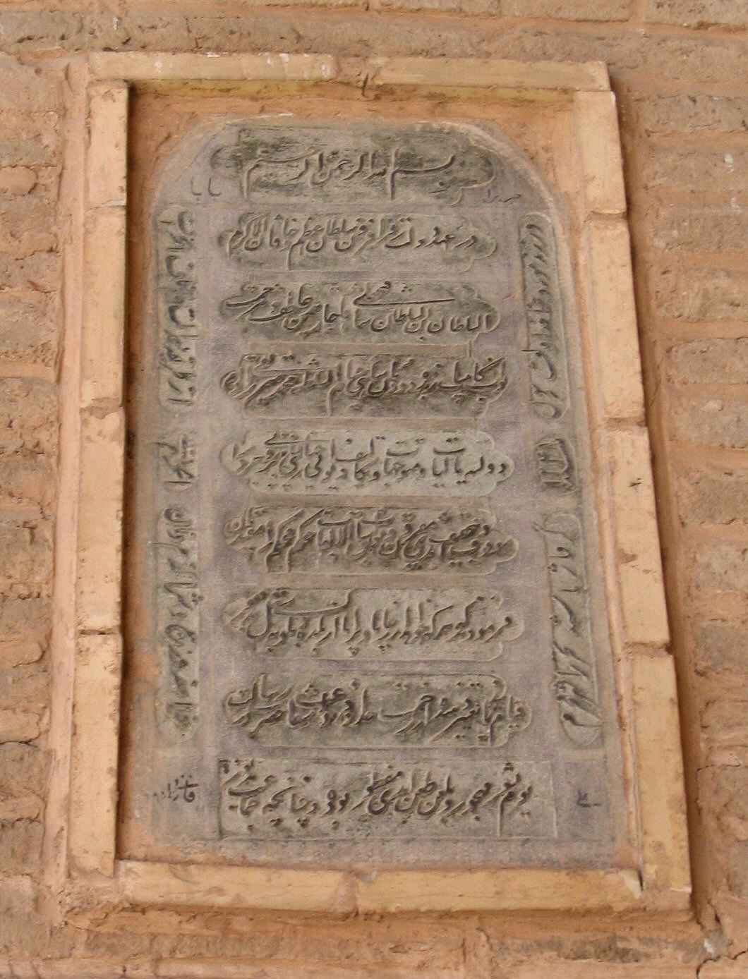 An old inscription in Sultani mosque of Borujerd - Qajar era